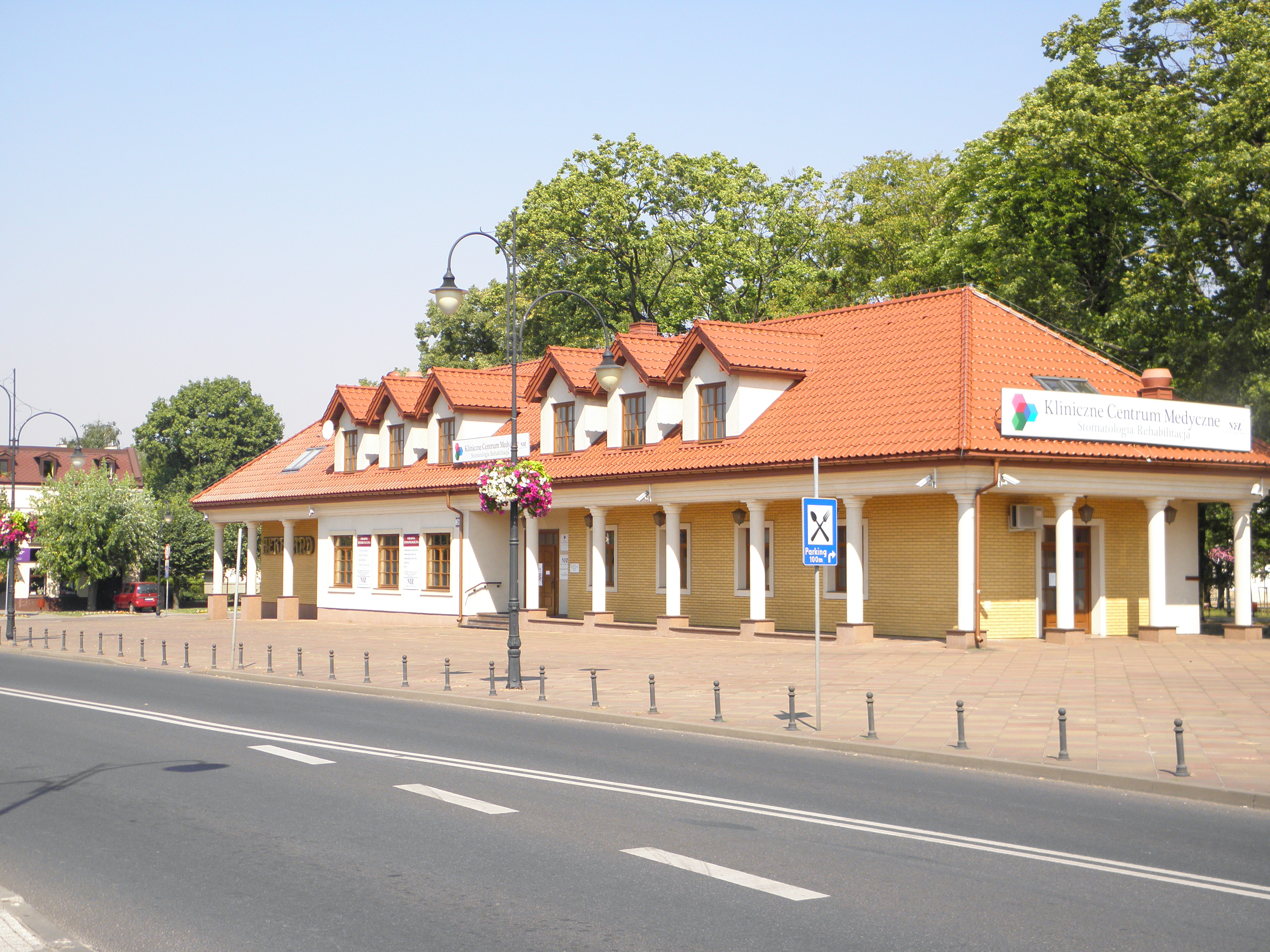 Plac Tadeusza Kościuszki - Kościuszki Square in Aleksandrów Łódzki 2015